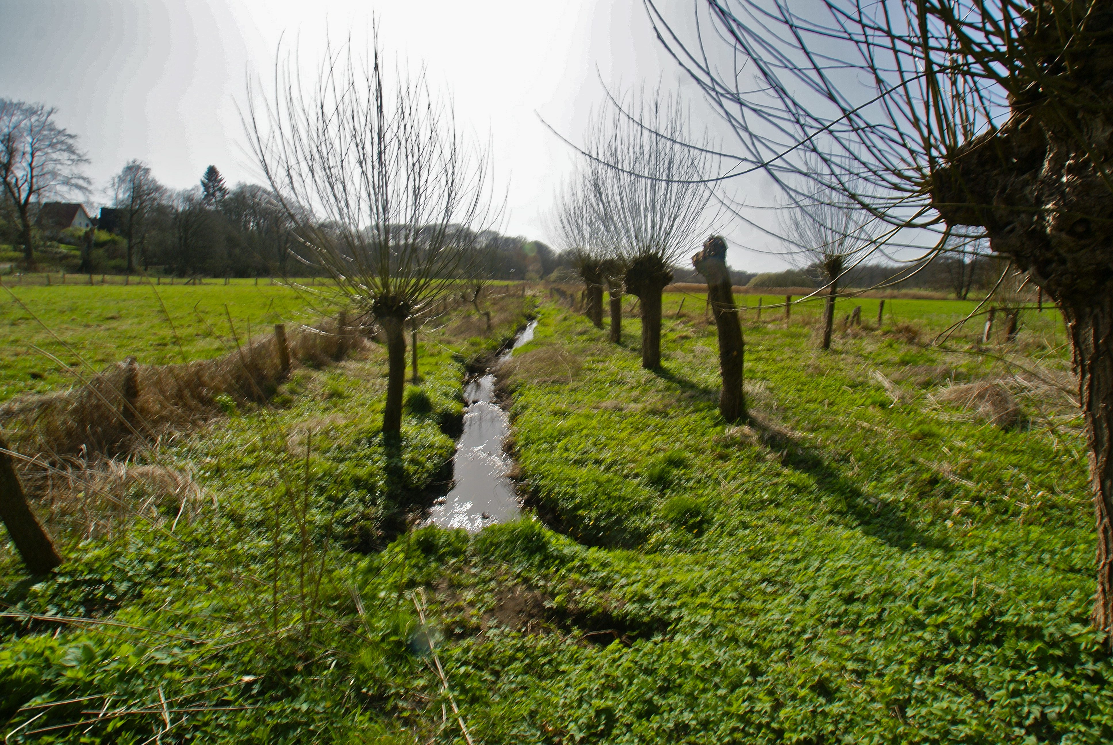 Hamburg (Volksdorf), Germany: The river Gussau in the natural reserve Volksdorfer Teichwiesen